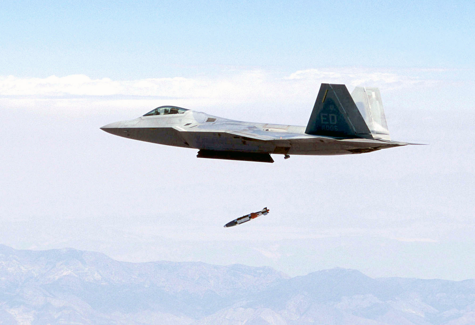 United States Air Force test pilot Major John Teichert, releases a guided bomb unit (GBU)-32 1,000-lbs Joint Direct Attack Munition (JDAM) from a USAF F/A-22A Raptor fighter at supersonic speed for the first time near California's Panamint Mountain range.